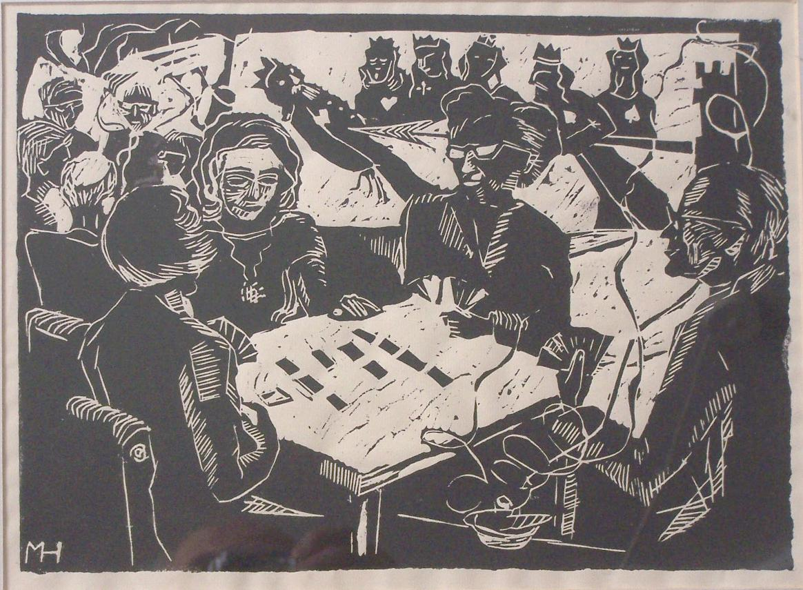 Bridge, Linocut, 35x25cm, 1960, by Margret Hofheinz-Döring